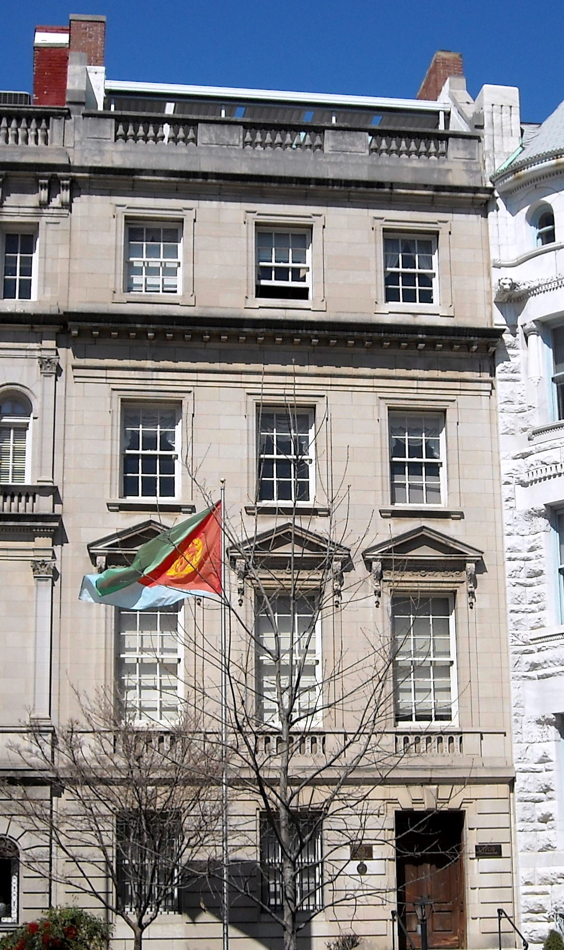 The Embassy of Eritrea located at 1708 New Hampshire Avenue, NW in the Dupont Circle neighborhood of Washington The five-story Beaux-Arts row house is a contributing property to the Dupont Circle Historic District and valued at $3,081,960. Past owners include Victor Kauffmann, the American Friends Service Committee, International Student House, The Jamestown Foundation, University Women's Club, and Anderson, Hibey, Nauheim & Blair LLP.